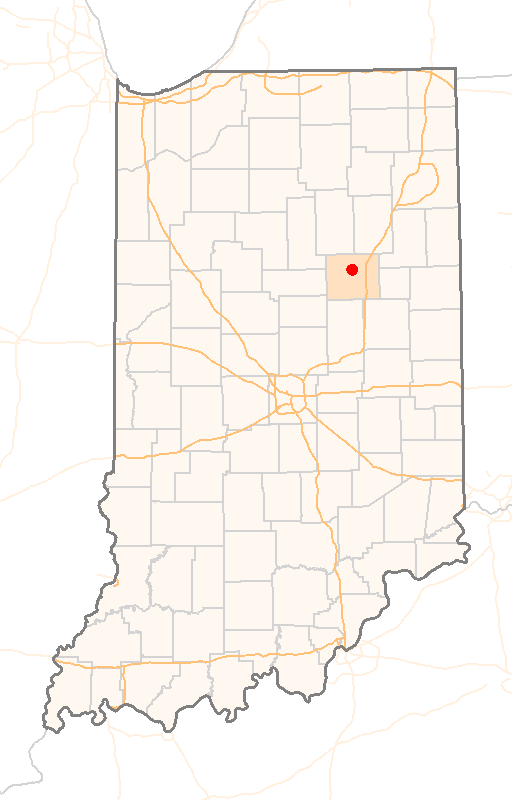 Red Dot map of Indiana, showing the location of Marion